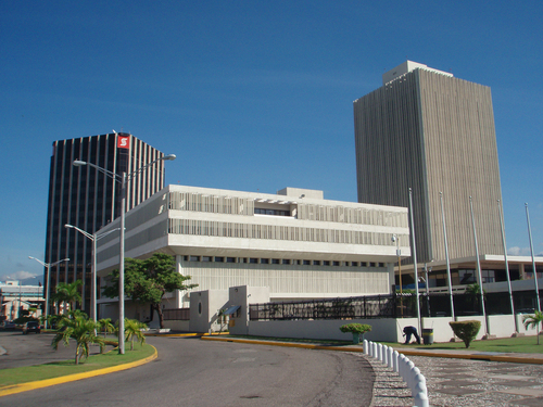 Downtown Kingston waterfront